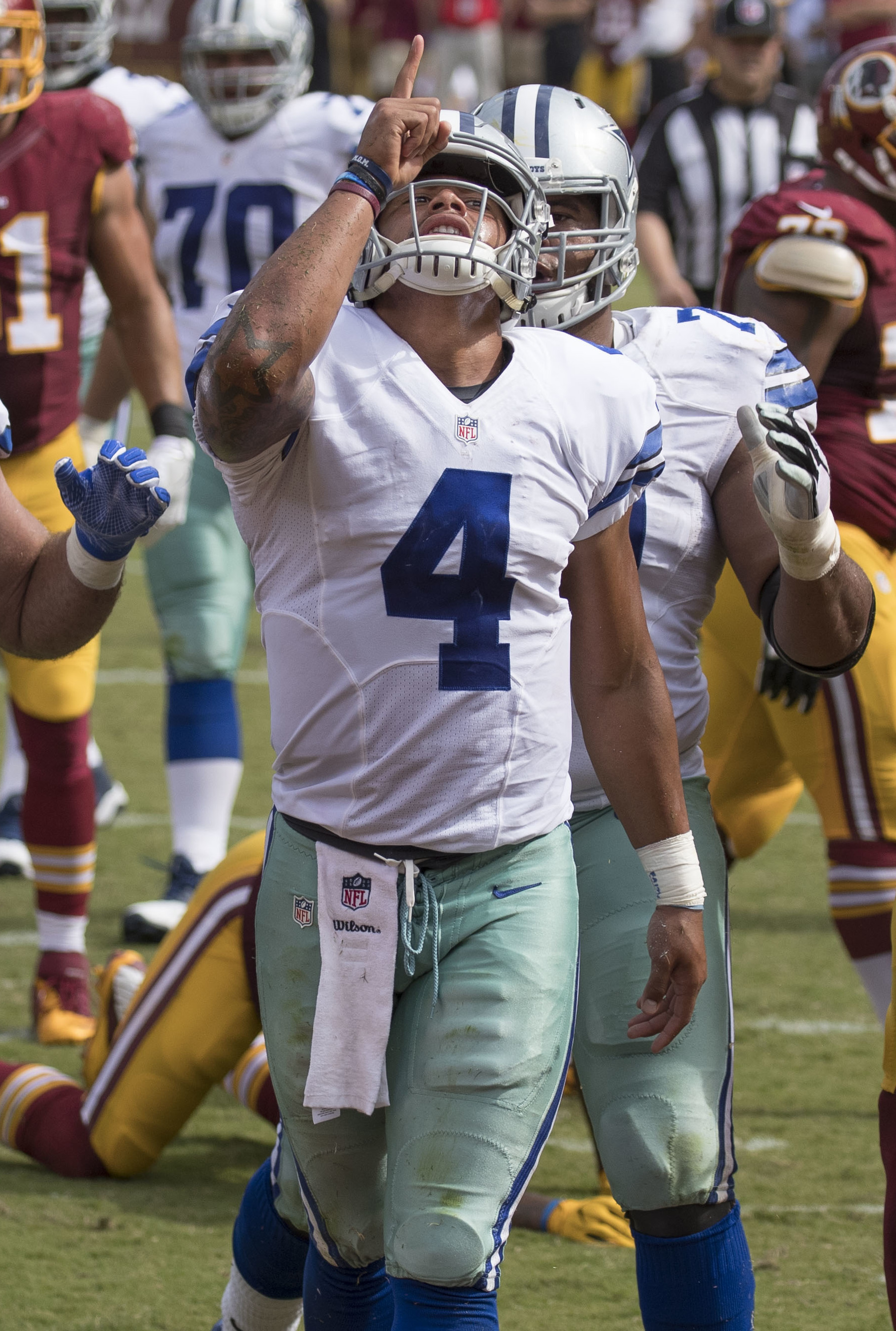 Cowboys at Redskins 9/18/16